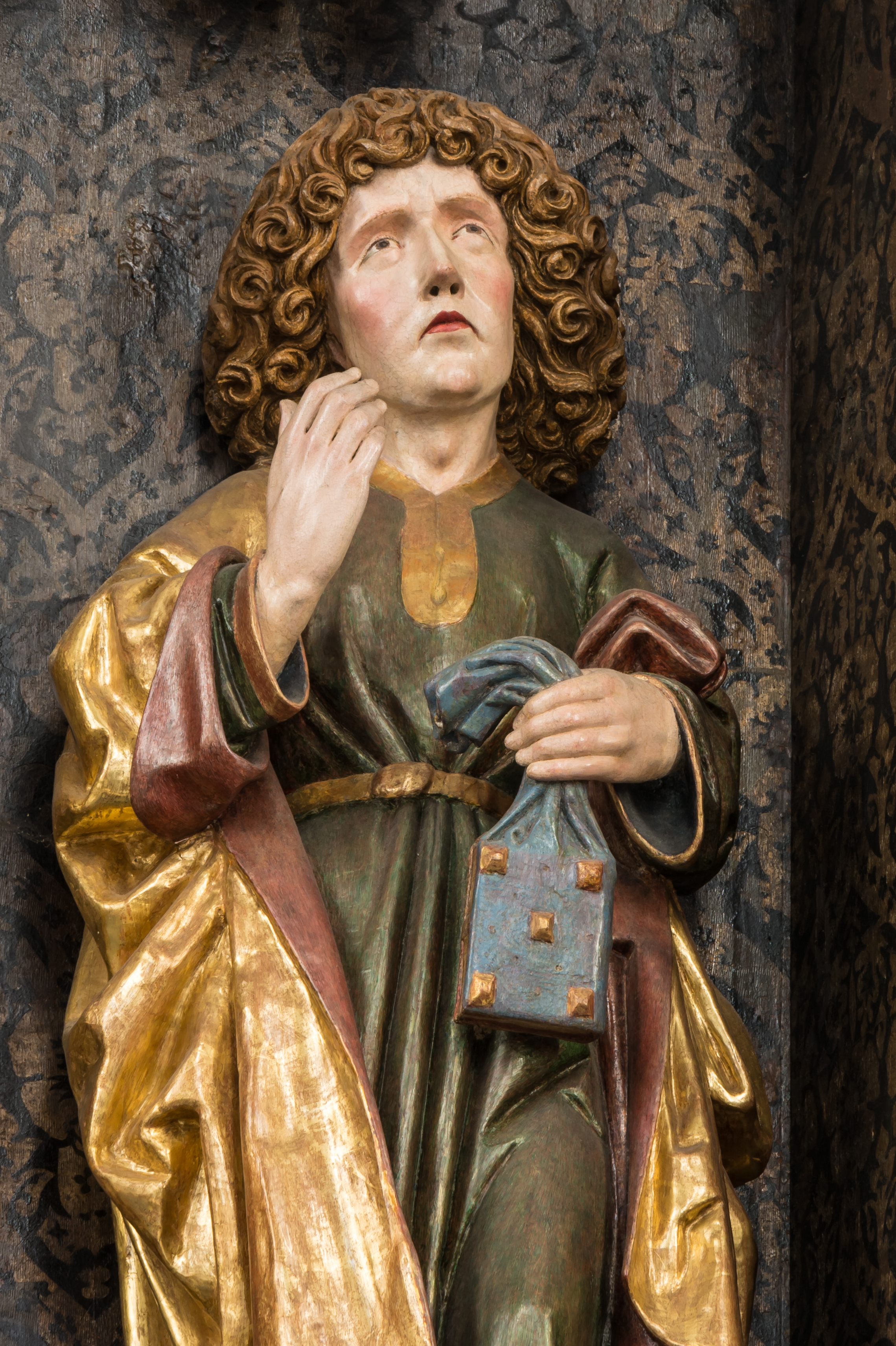 John the Apostle at the winged altar of St. Anna parish church Pöggstall, Lower Austria. Anonymous master, around 1500.